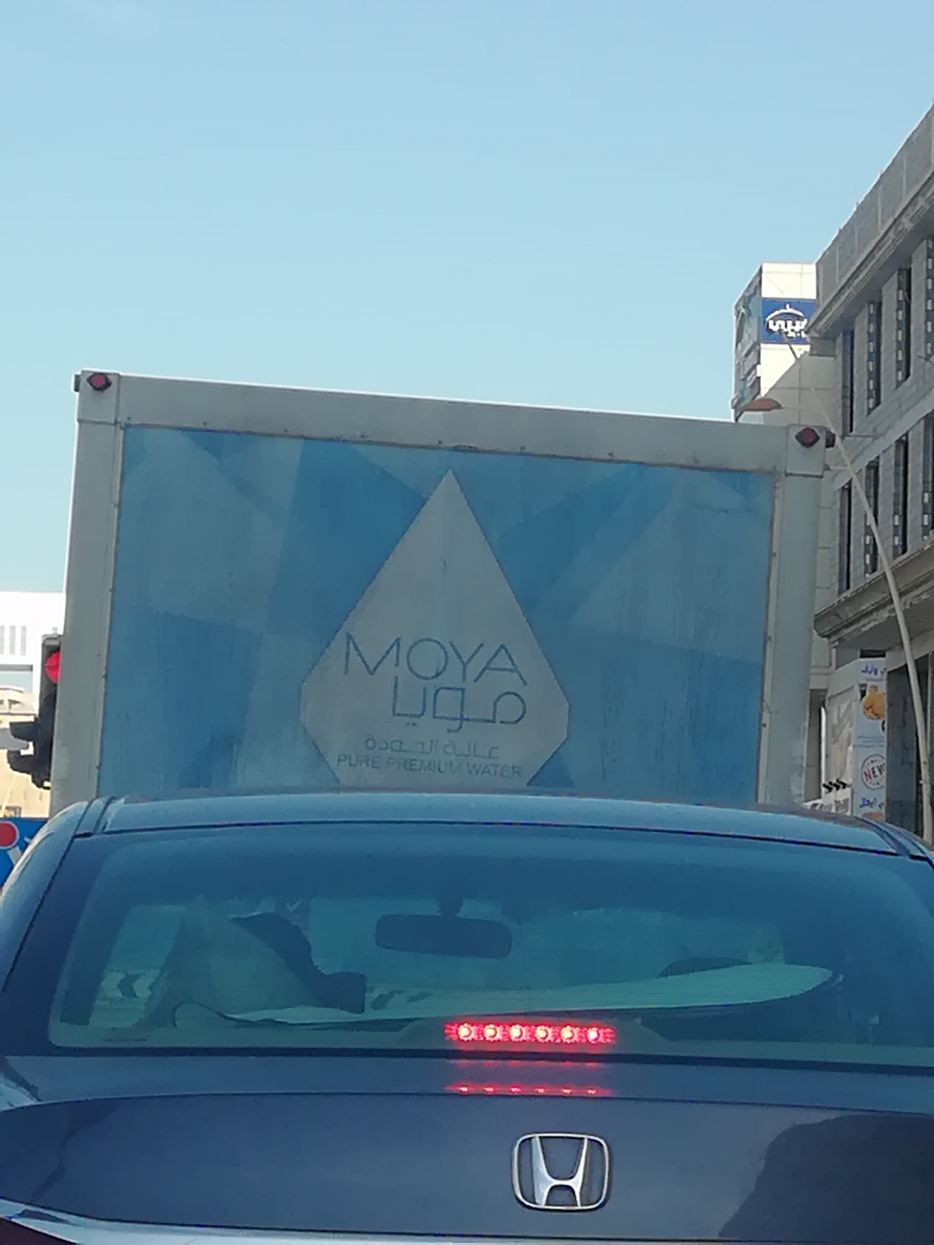 water in Saudi Arabic dialect